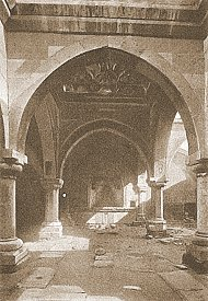 Monastery of Horomos, close to Ani, eastern Turkey.